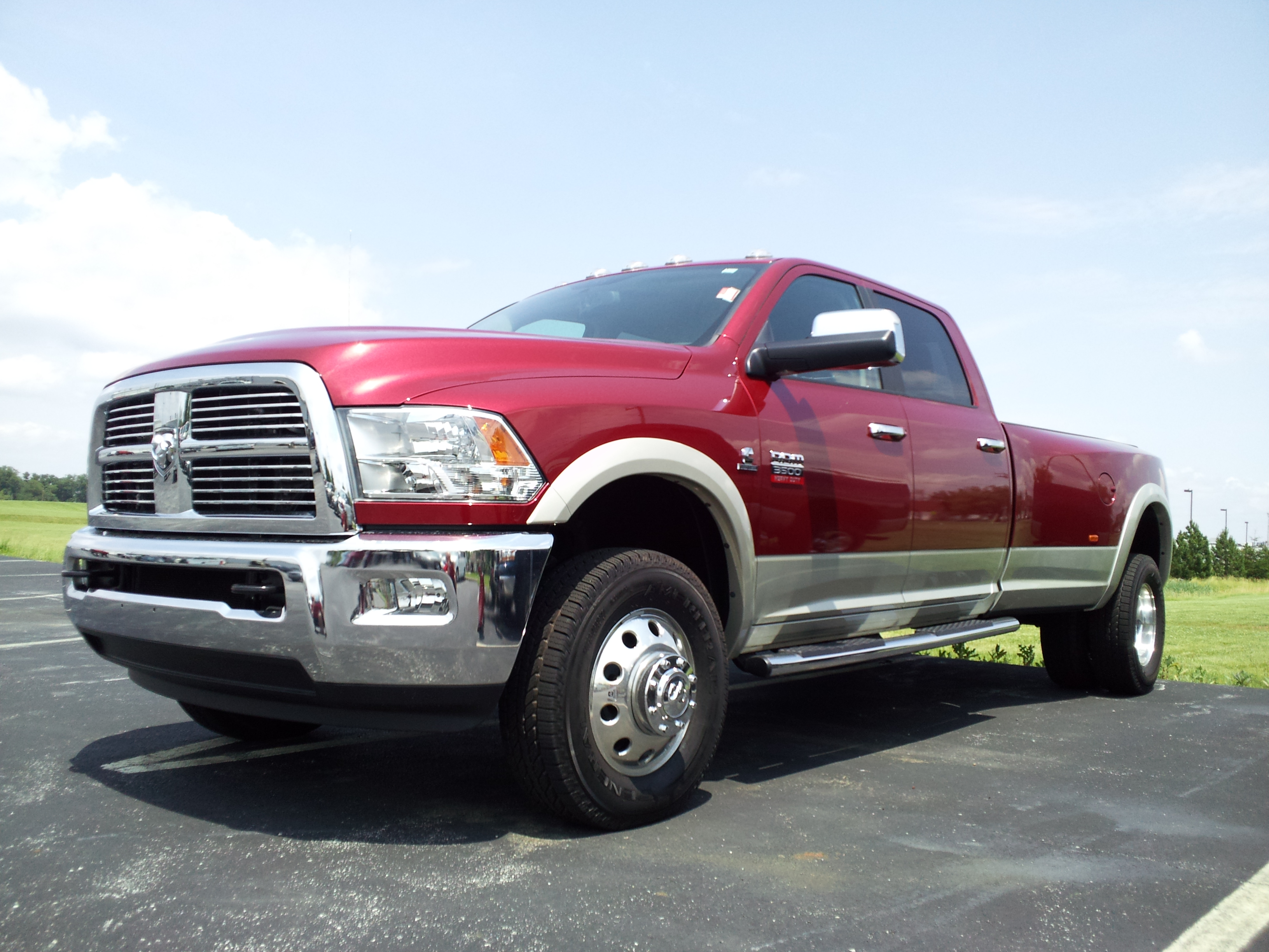 2011.5 Ram 3500 pick up truck. Fully loaded.